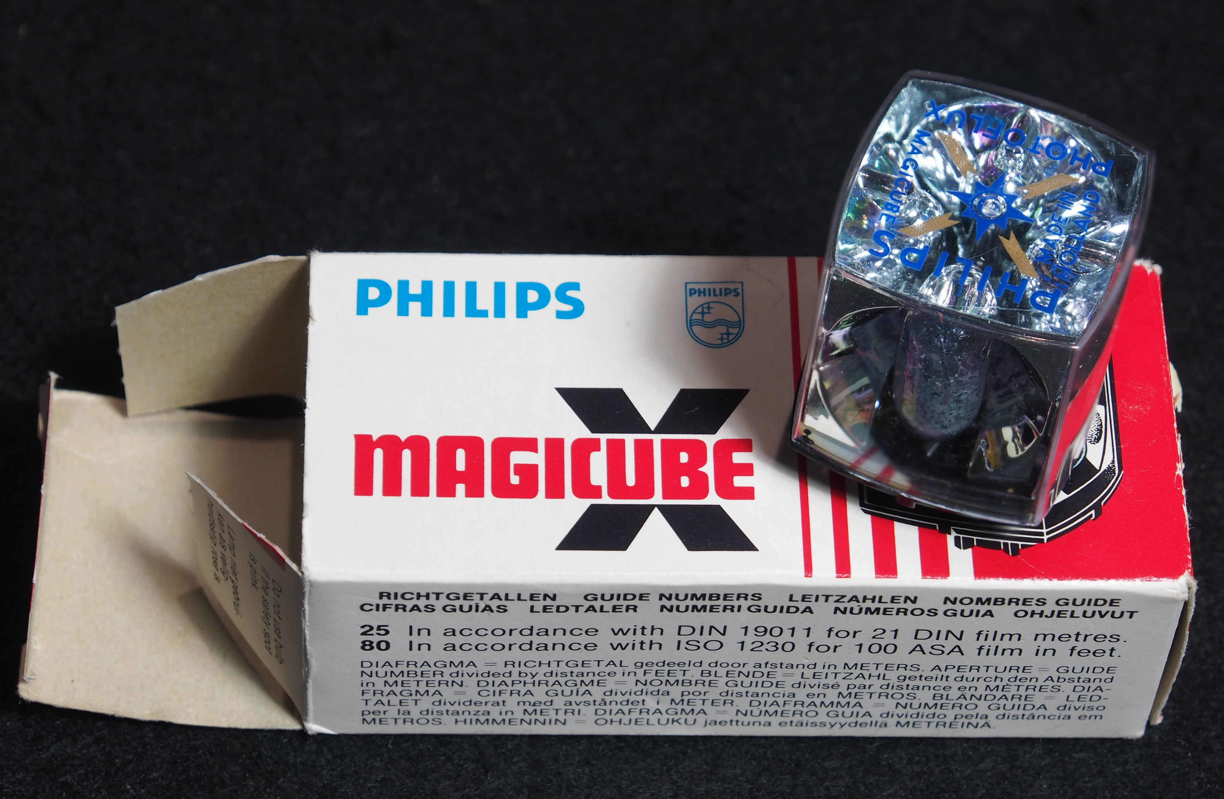 Very old product that is not produced and not sold any more. Note that some tins may look the same, but when looked for carefully there are some slight differences! For more info see tincollectors.nl or